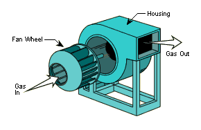 This drawing was obtained from a U.S. EPA website at on April 4, 2007. - mbeychok 17:57, 4 April 2007 (UTC)